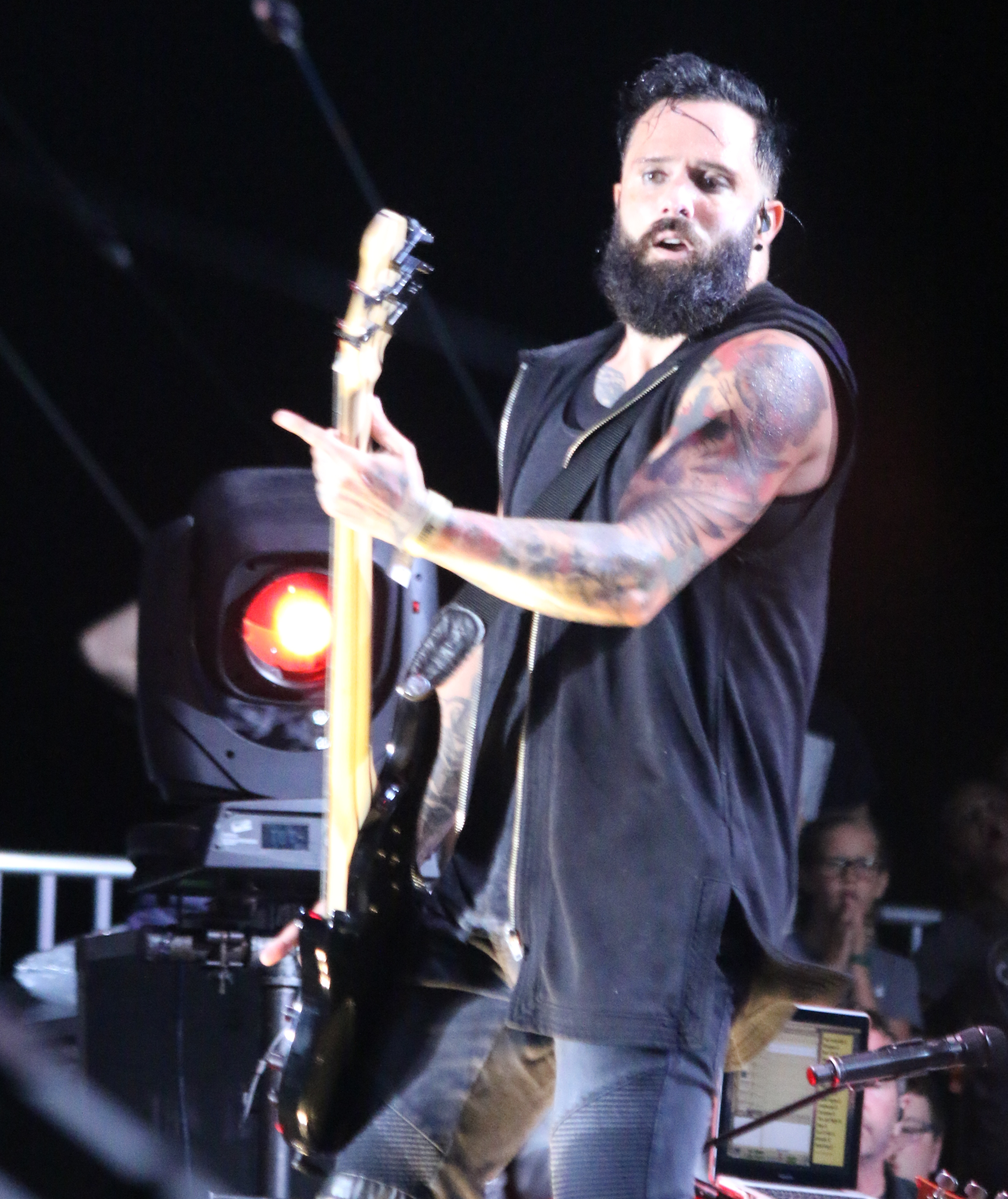 Skillet lead singer John Cooper playing at Lifest 2017